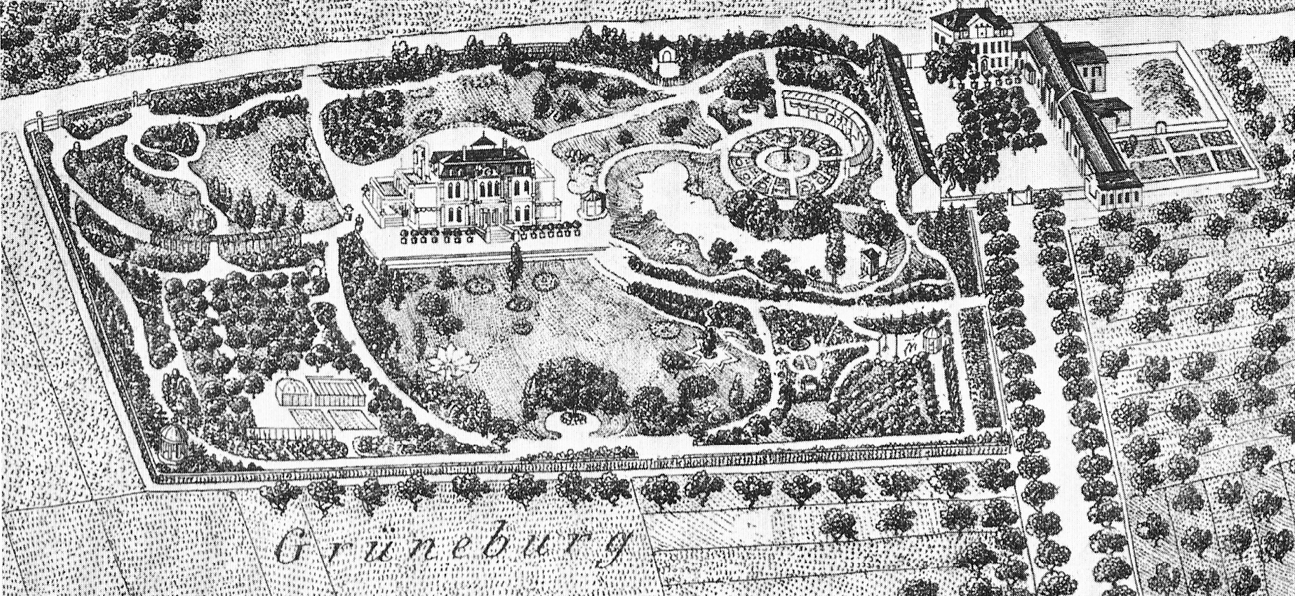 Frankfurt/M., Germany: The Grüneburg mansion or country house in the Westend, owned by the Rothschilds since 1832. In 1935 occupied by Frankfurt’s national socialist administration. The house was destroyed in a bombing raid on Frankfurt in 1944. Detail of a pictorial town map of 1864 by Friedrich Wilhelm Delkeskamp (1794–1872). Shown at top right the original Grüne Burg (“Green Castle”), previously owned by the Bethmann family.